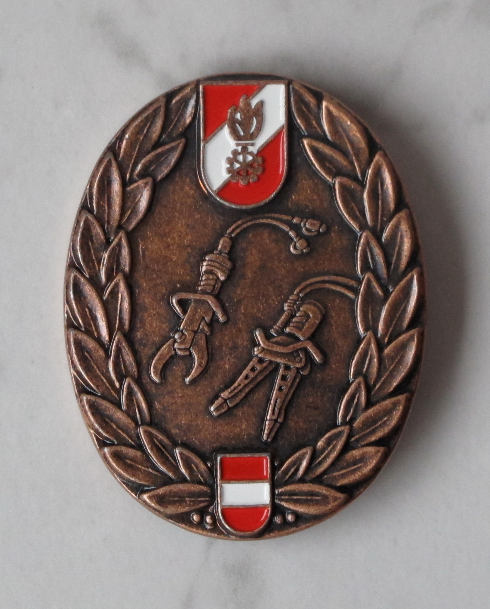 Firebrigarde Austria